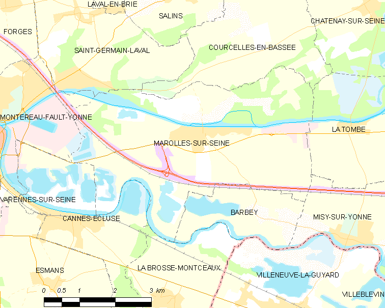 Map of French municipality Marolles-sur-Seine